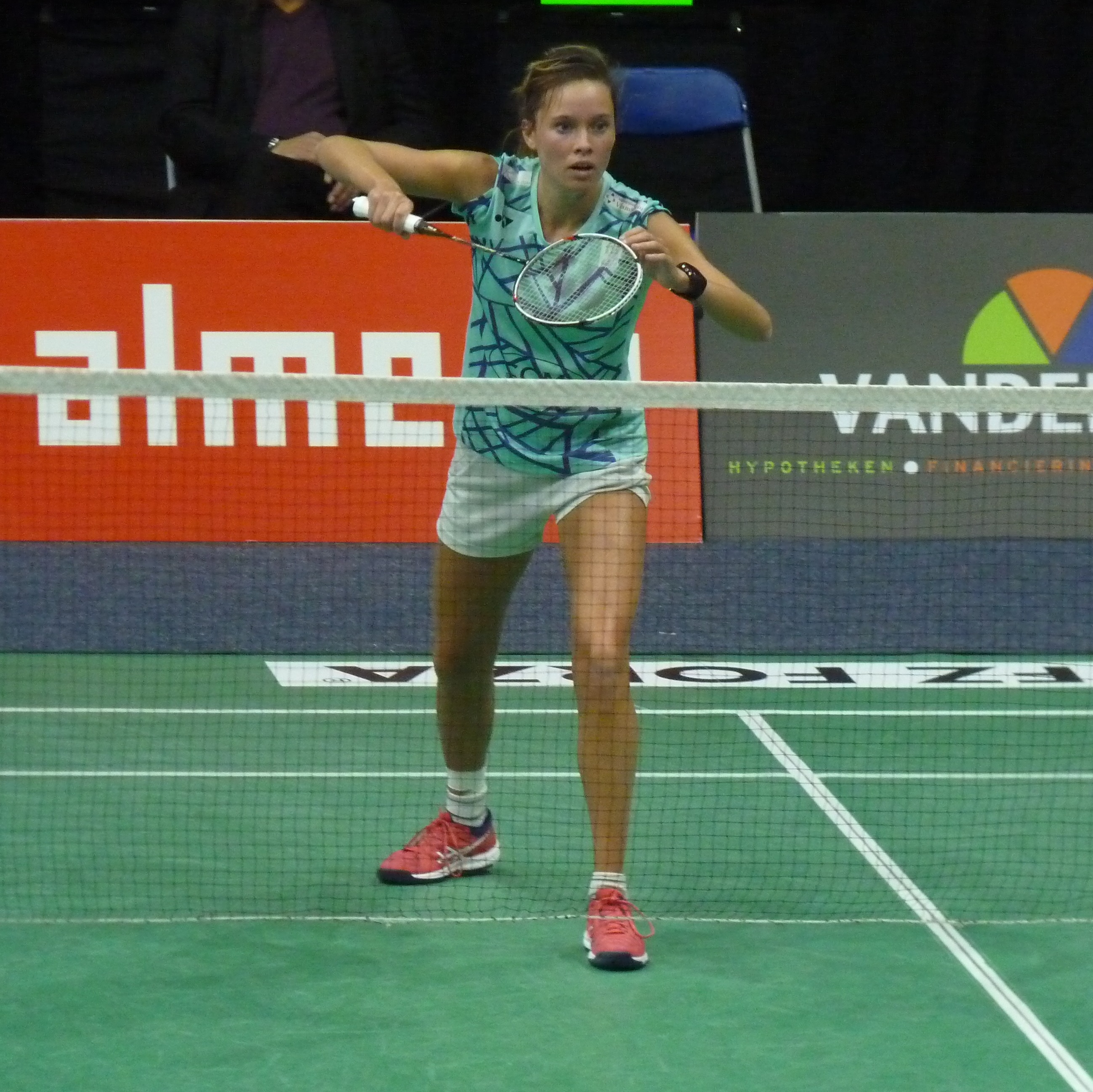 Soraya de Visch Eijbergen (the Netherlands)